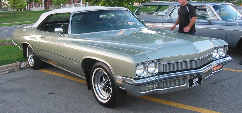 1972 Buick Centurion photographed in Dollard Des Ormeaux, Quebec, Canada at Auto classique Jukebox Burgers 2011.